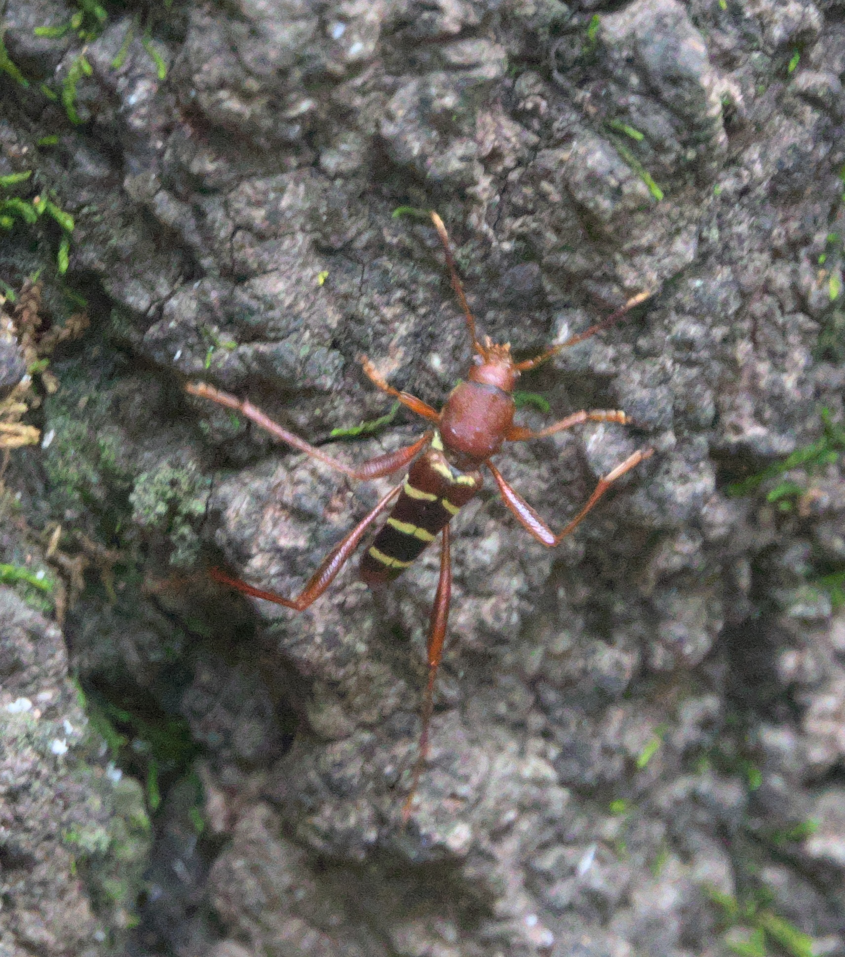 Neoclytus acuminatus, red-headed ash borer, ID Confidence: 90